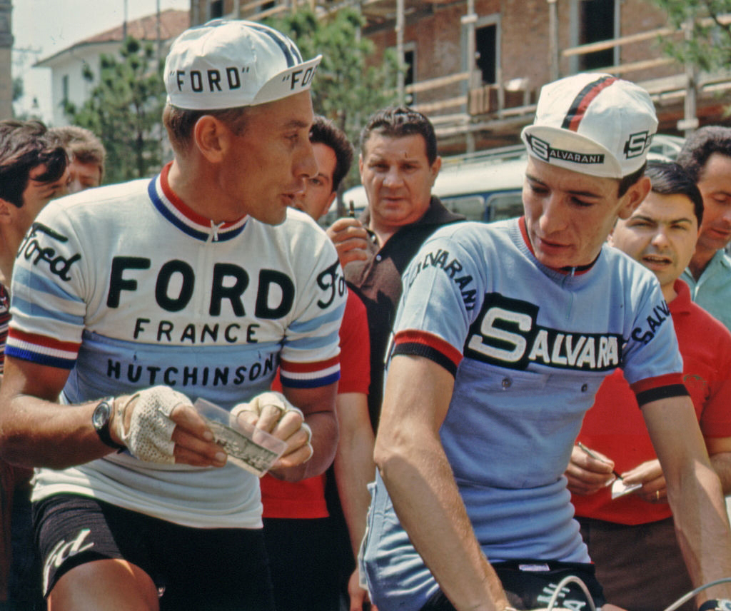 Cyclists Felice Gimondi and Jacques Anquetil talking to each other at the start of a stage of the Giro d'Italia. Italy, May 1966